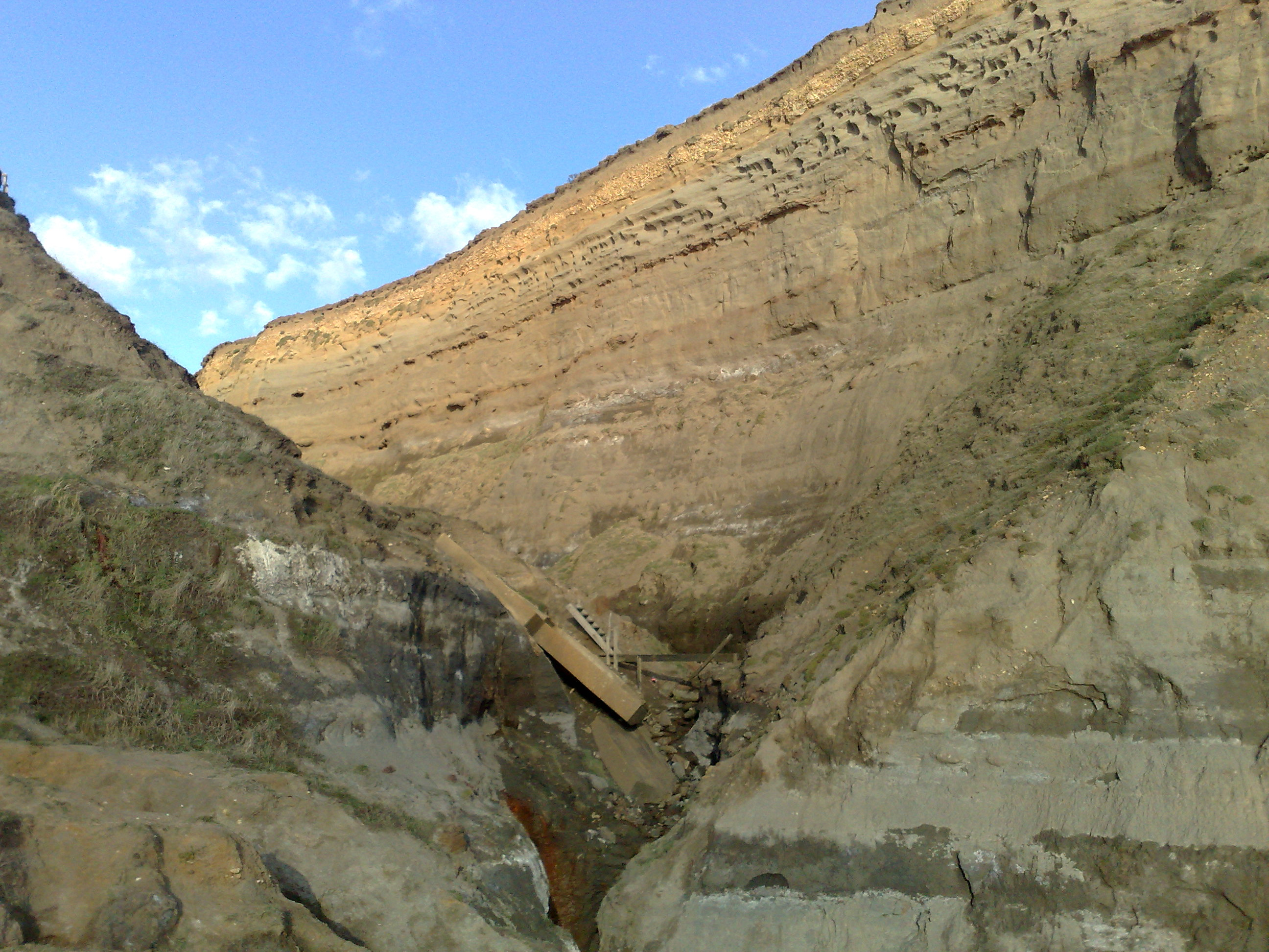 Whale Chine on the Isle of Wight showing the steep sides and the broken stairs which used to provide access to the beach from the cliff top.